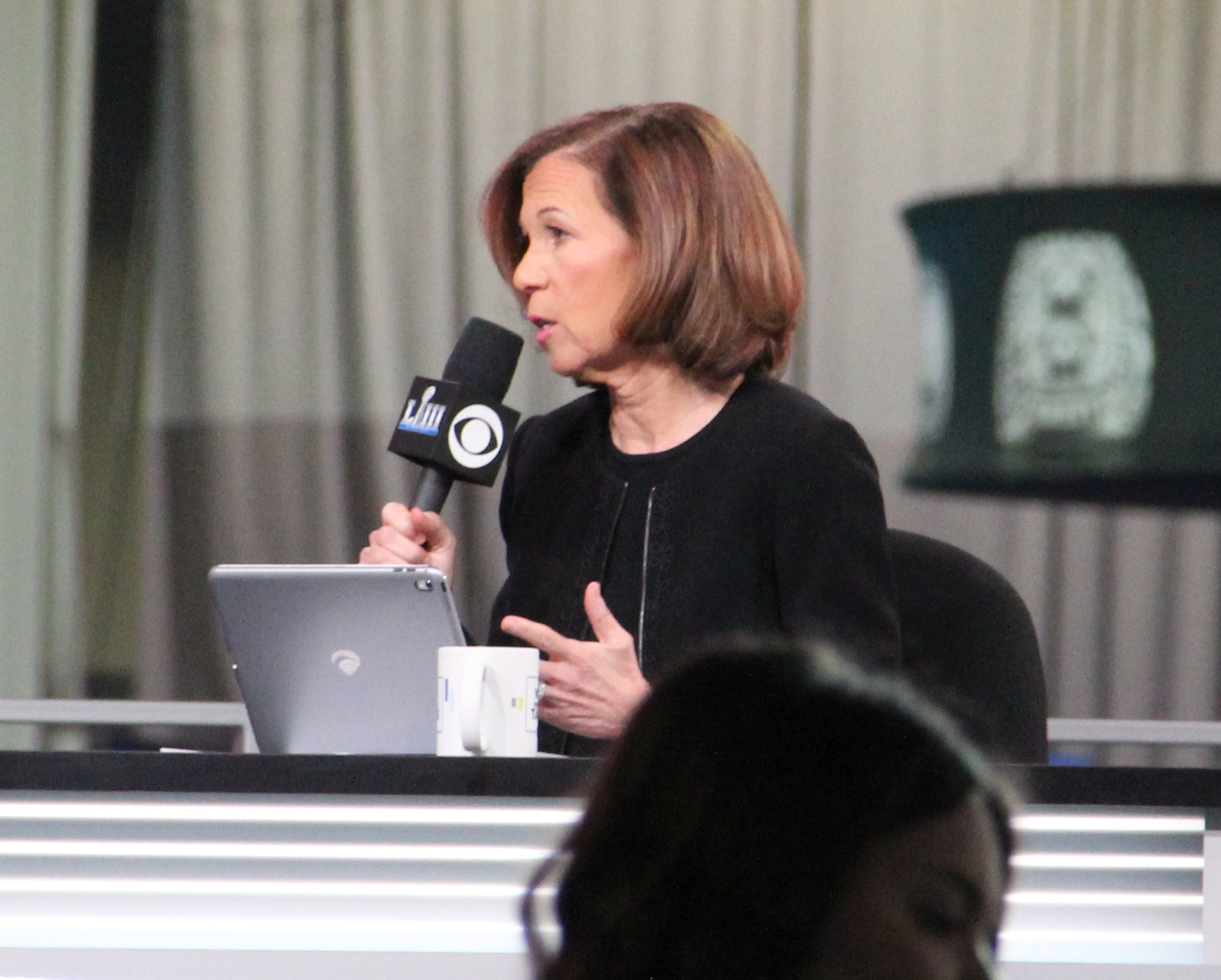 Amy Trask at the Super Bowl Experience at Super Bowl LIII